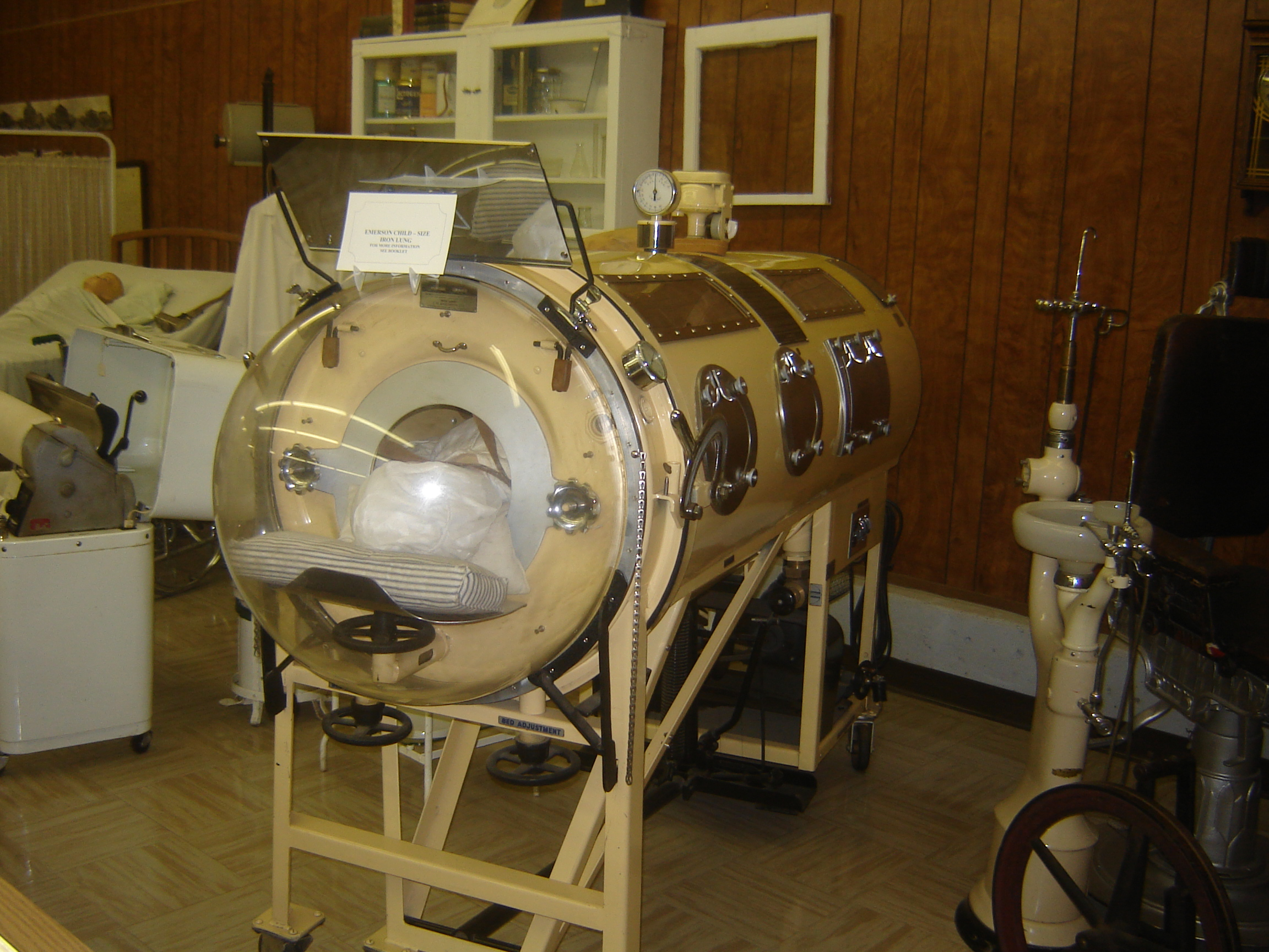 Barr Colony Heritage Cultural Centre Iron Lung to treat patients with Poliomelytis